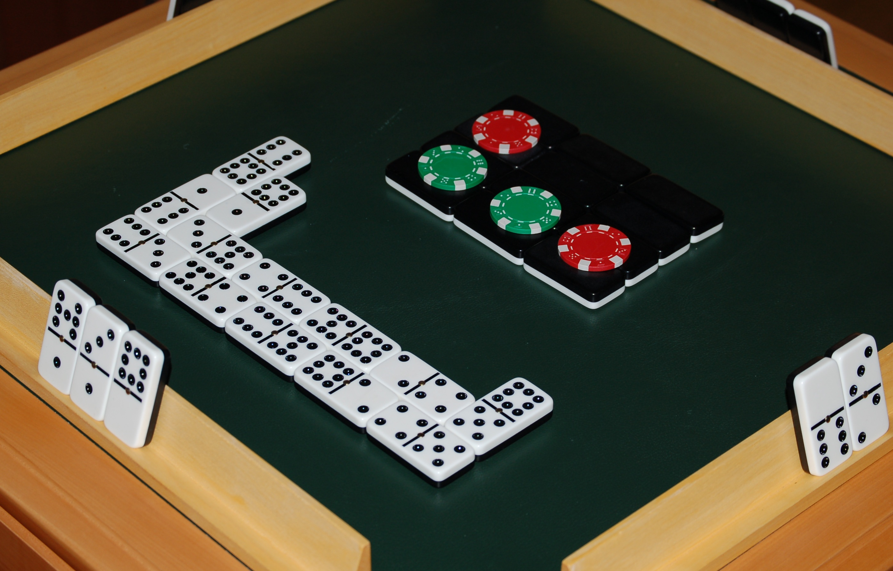 A game of Booky-Domino. The players' stakes are placed on the boneyard. Matching tiles are placed adjacent to each other in (ancient) Austrian manner.